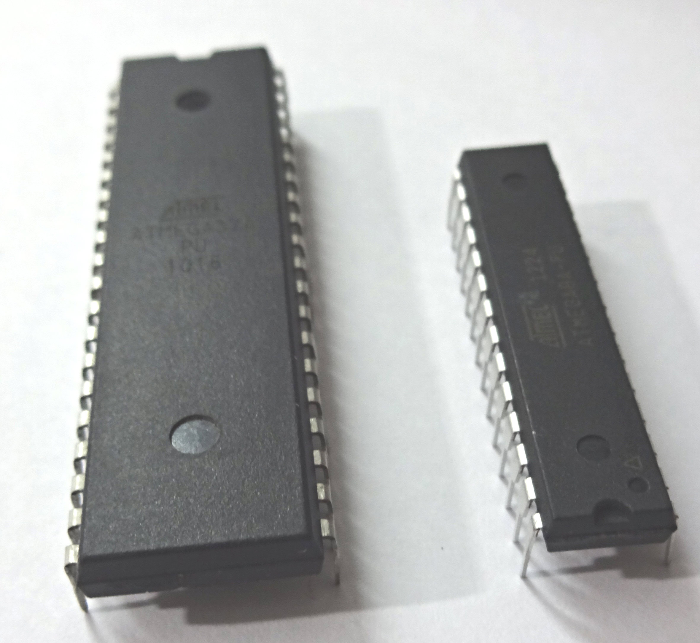 Microcontrollers Atmega32 Atmega8